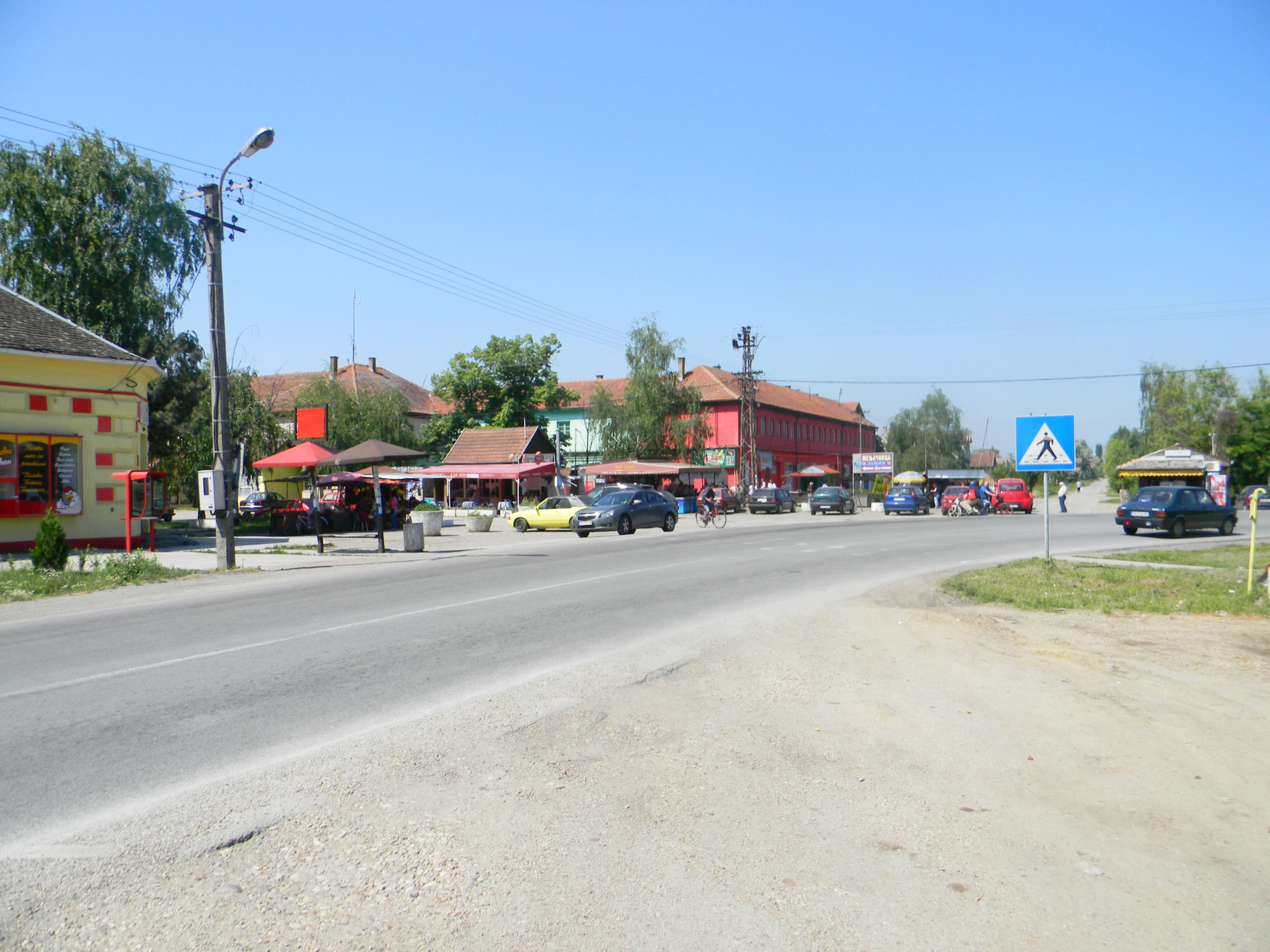 Downtown of Bavanište, Serbia